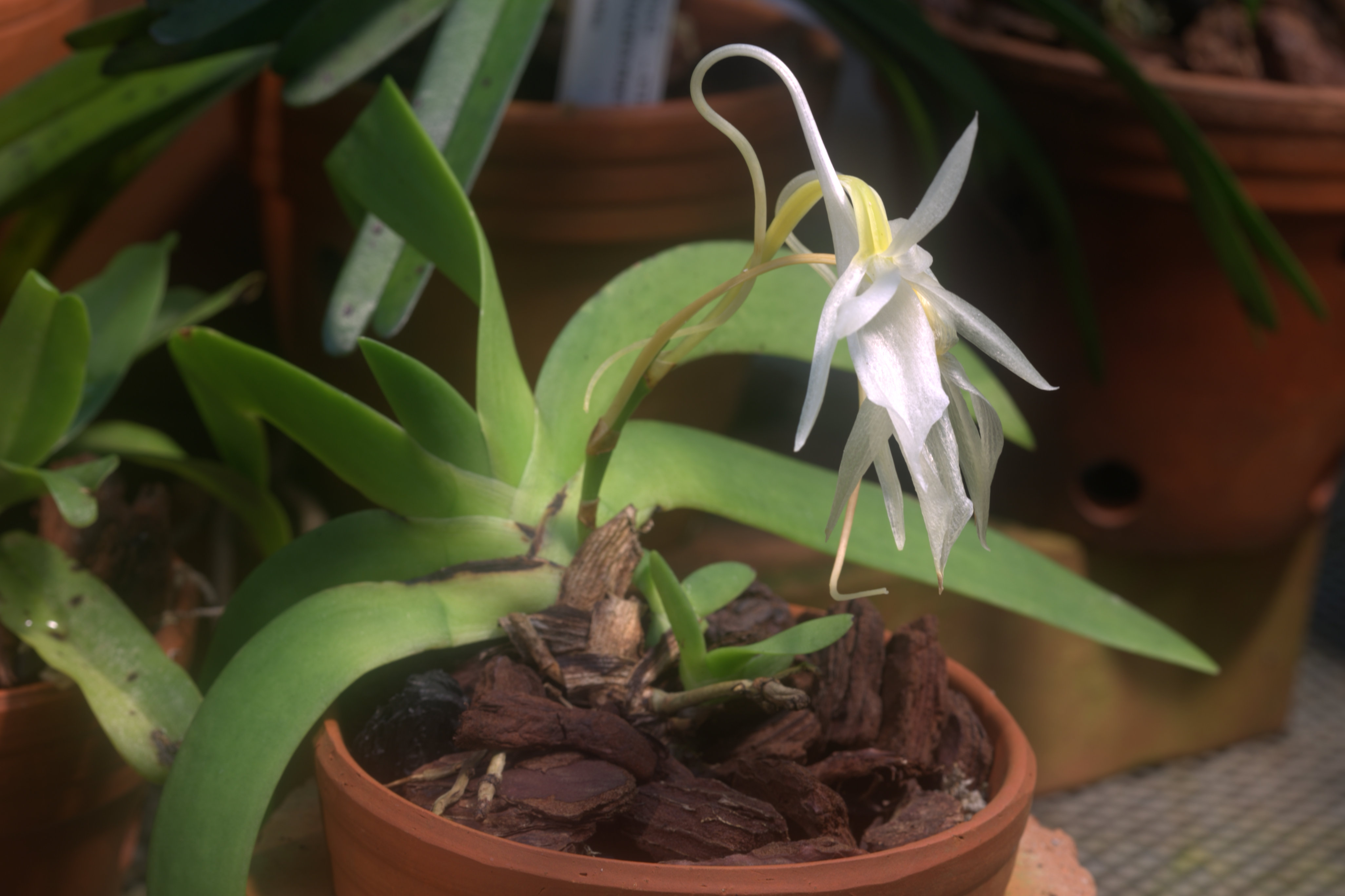 Angraecum leonis in Gothenburg Botanical Garden. Plant id: 2012-1905 p G -- Stenåsa 2